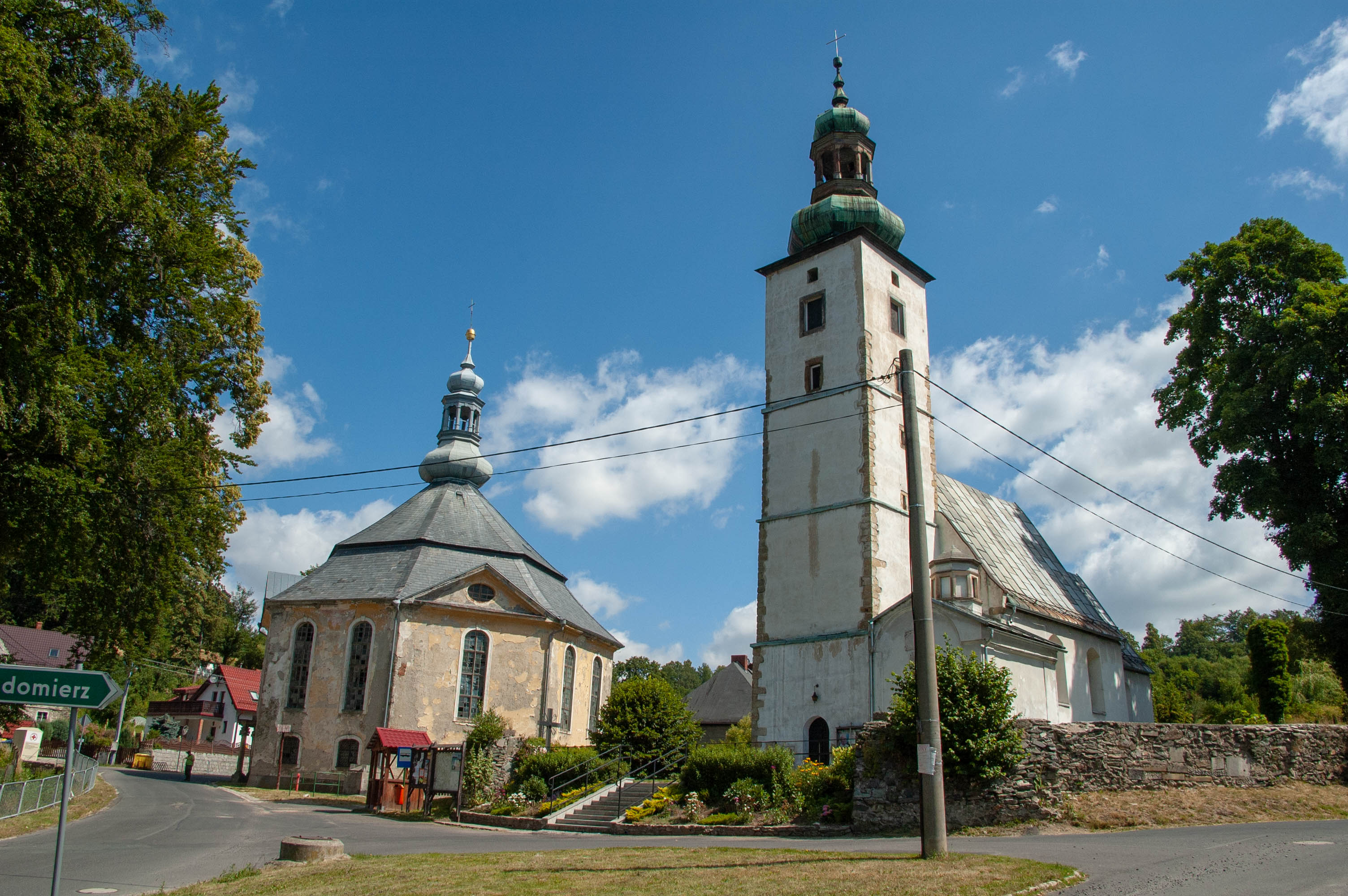 This photograph was created as a part of Wikiexpedition Lower Silesia, a project supported by Wikimedia Poland grant.